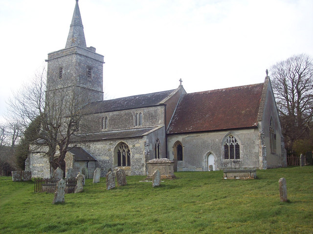 The Church of All Saints, Fittleton Recorded in 1086 Fittleton was named 'Viteltone'.